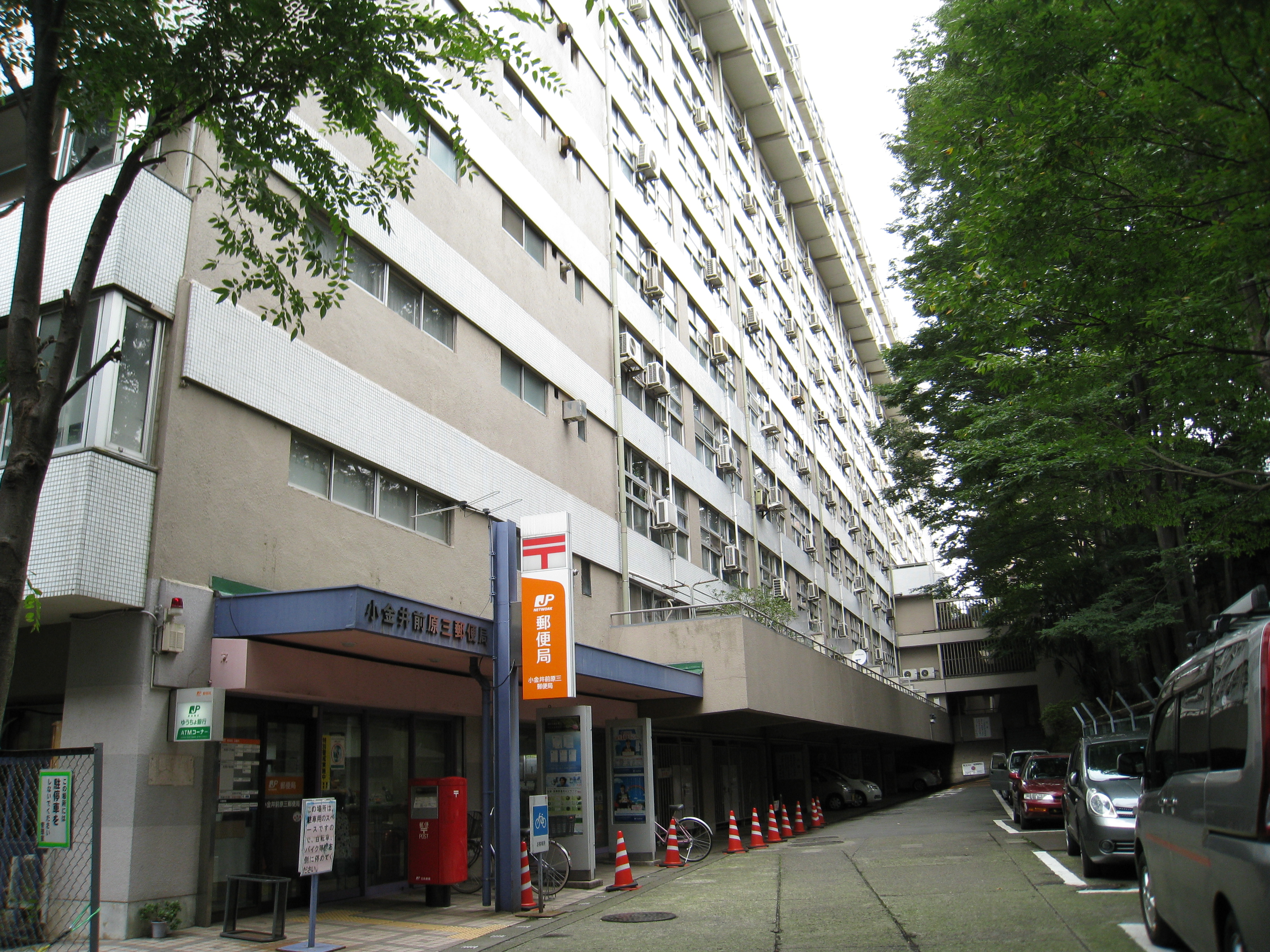 Koganei-maehara3 postoffice. This is first built postoffice in Koganei-city.